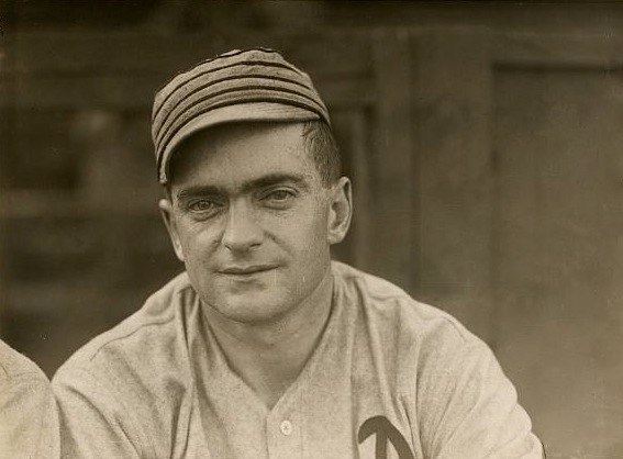 Photograph shows Jimmy Dygert, pitcher for the Philadelphia Athletics, head-and-shoulders portrait, facing front. Photo courtesy of the Library of Congress.